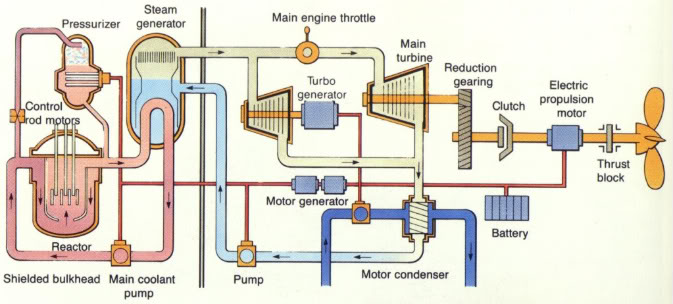 Propulsion & Electrical